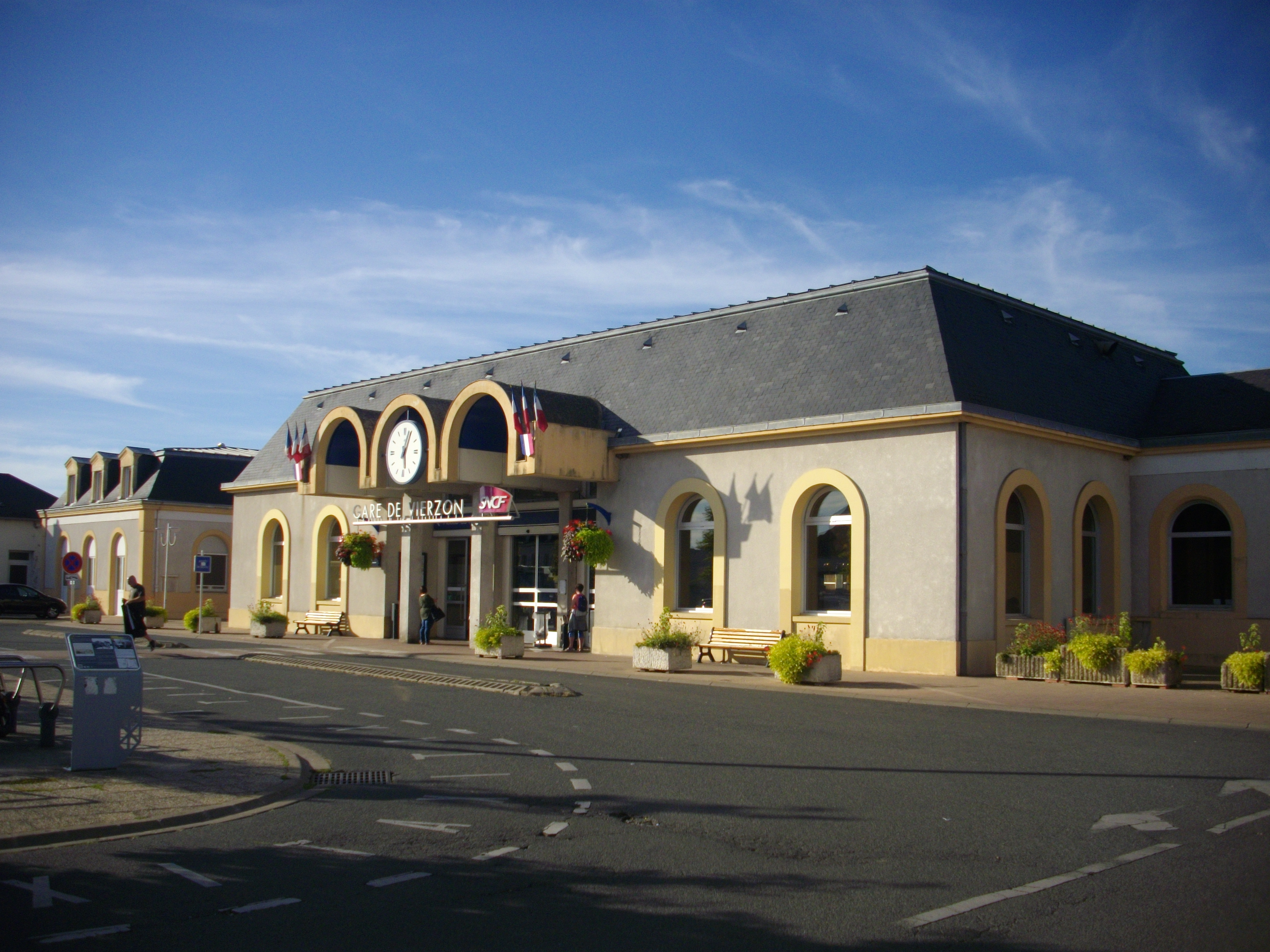 Train station of Vierzon (Cher, France)